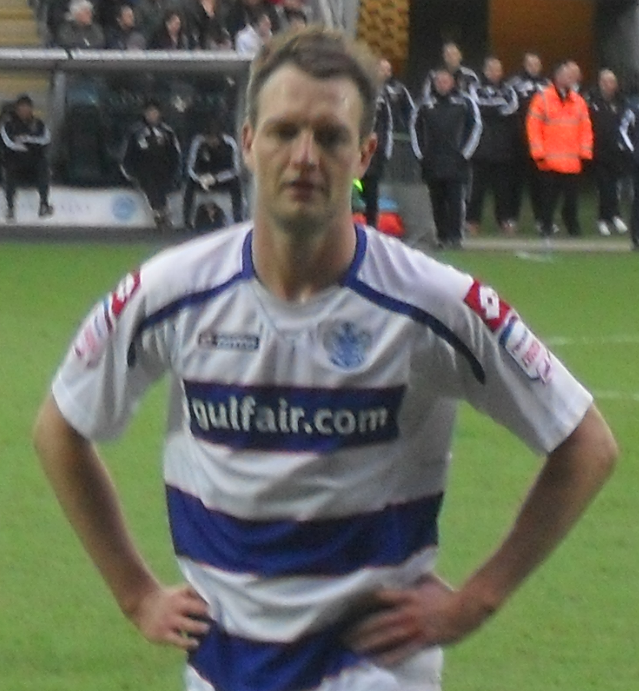 Clint Hill